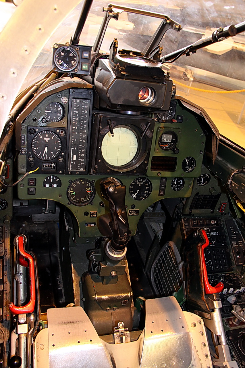 Saab 35FS Draken (DK-233) cockpit in Aviation Museum of Central Finland.